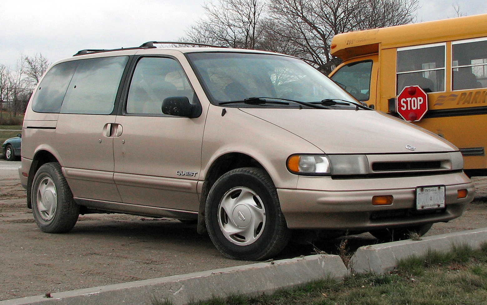 A 1993 Nissan Quest GXE minivan, photographed in Ontario Canada, showing the right-hand side view and sliding door side (the sliding door was only available on the right side during the first generation of production).